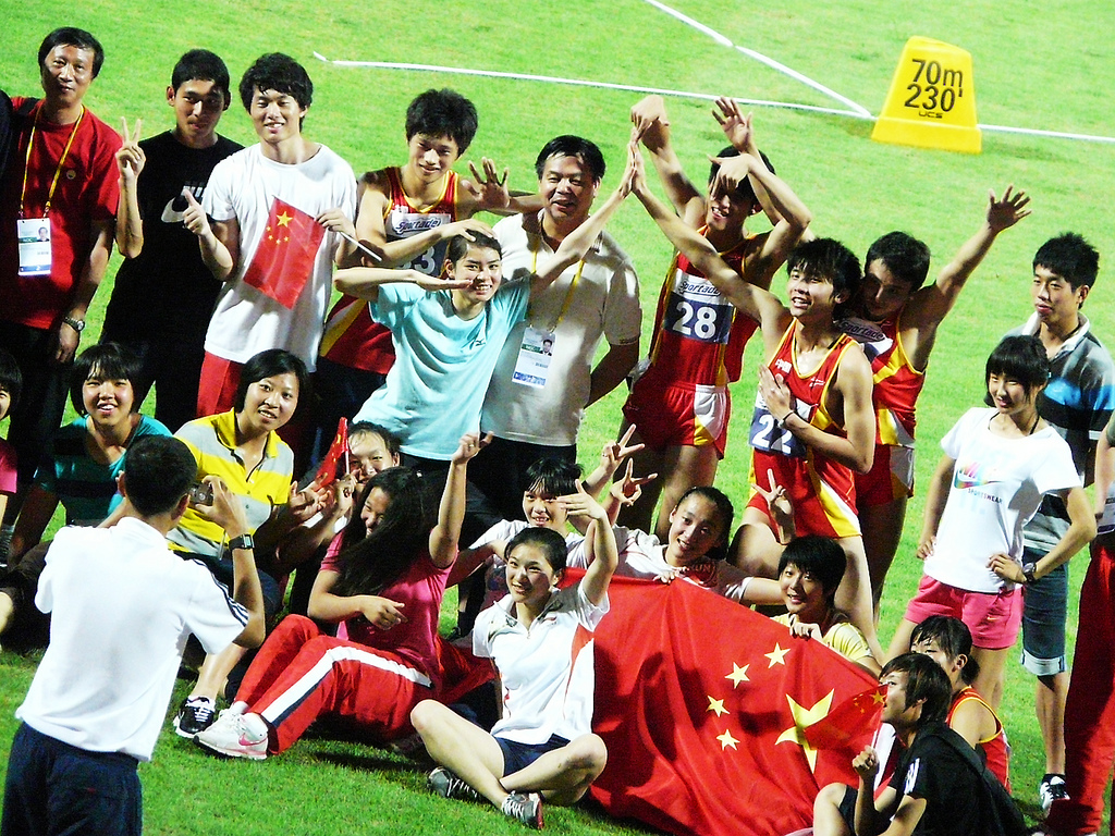 The China athletics team at the Asian Qualifier for the 2010 Summer Youth Olympics at Bishan Stadium, Singapore.